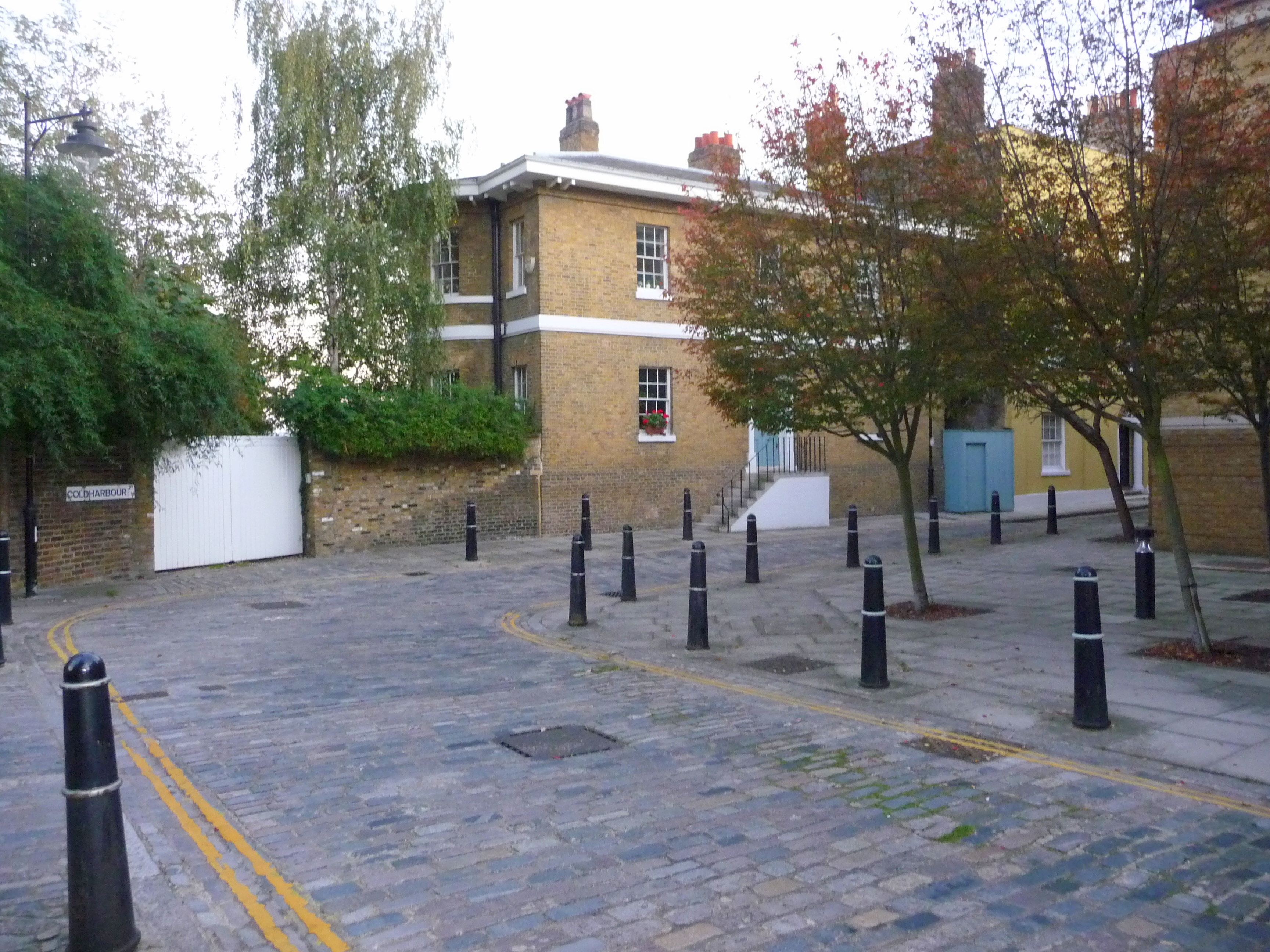 Isle House at the Northern end of Coldharbour, seen from Preston Road.